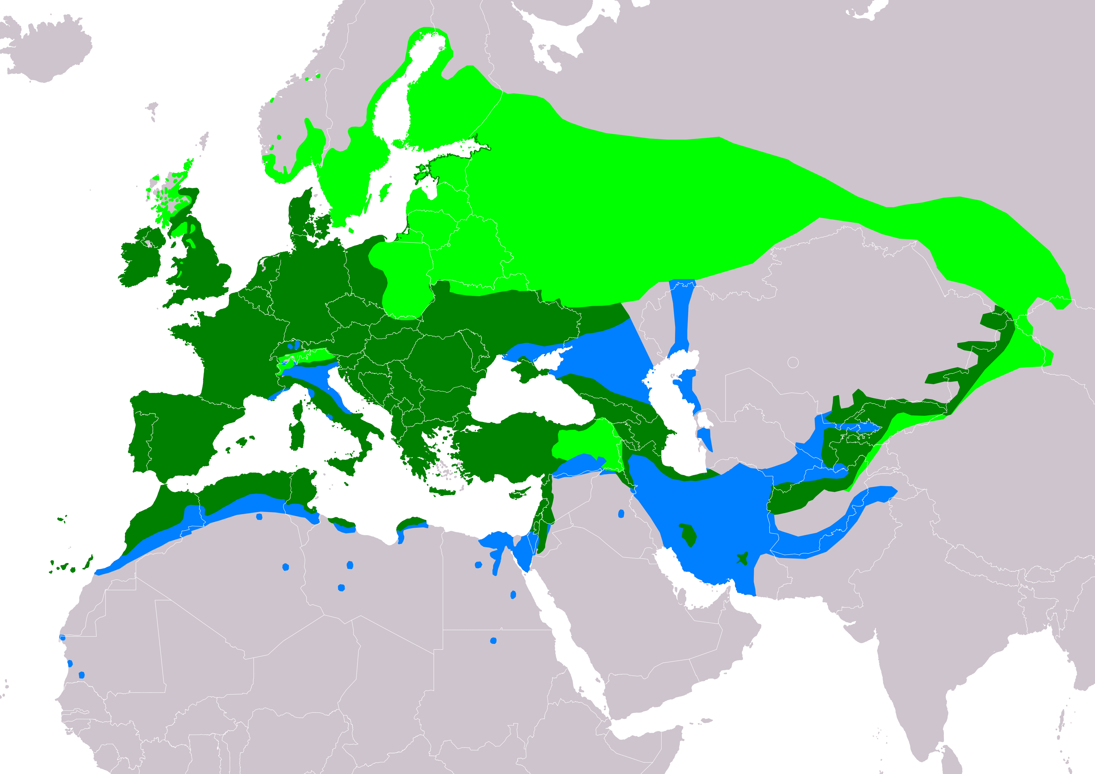 Distribution map of common linnet (Linaria cannabina) according to IUCN version 2019-2 ; key: Legend: Extant, breeding (#00FF00), Extant, resident (#008000), Extant, non-breeding (#007FFF)